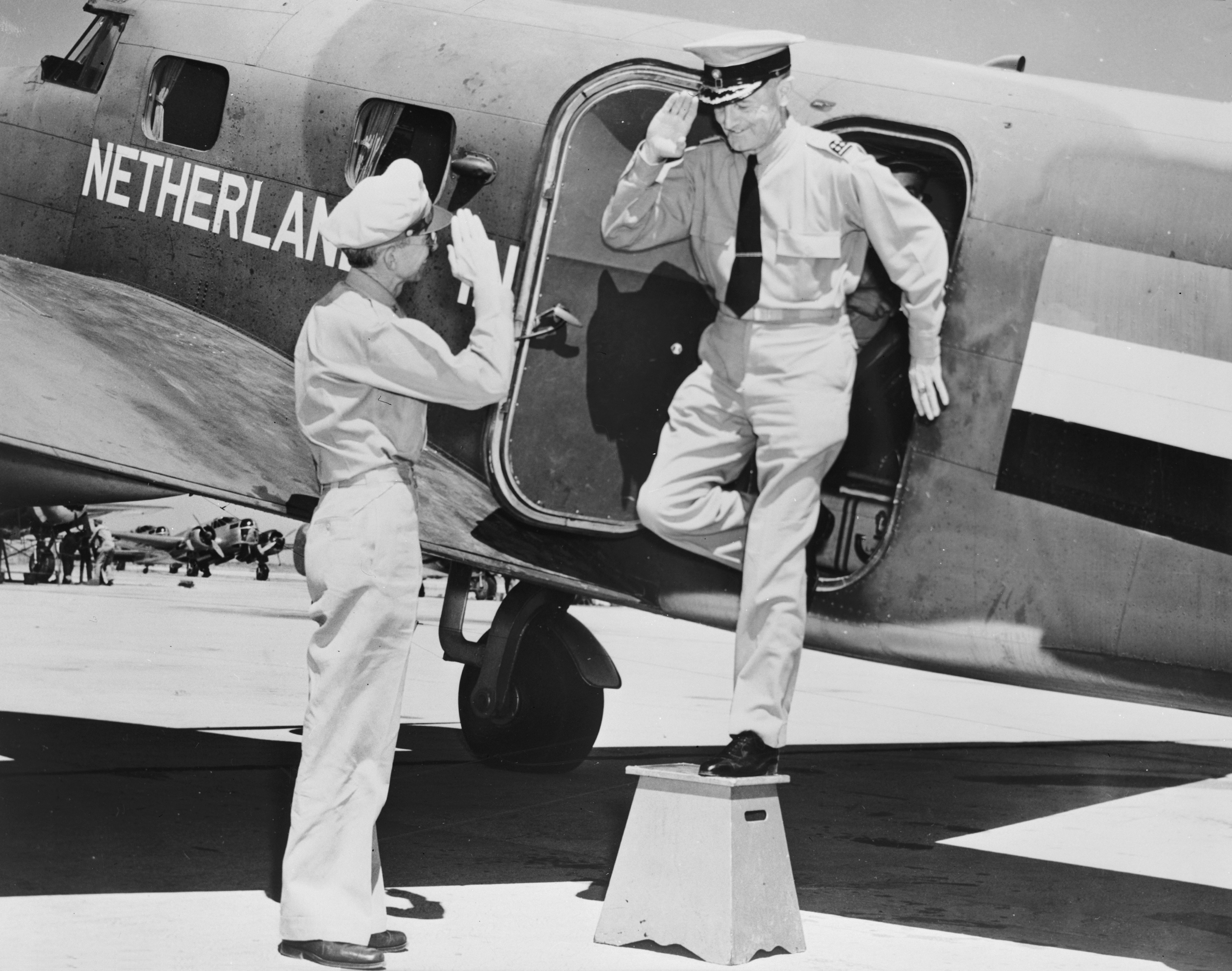 Major General Ludolph Hendrik van Oyen (right), commanding the Royal Netherlands military forces in the United States, exchanges salutes with USAAF Brigadier General Isaiah Davies (left), commanding Midland Army Flying School, as the Netherlands general arrived to attend graduation of another large class of Dutch and American bombardiers at the world's largest bombardier college at Midland Army Flying School, Texas (USA), ca. 1942.